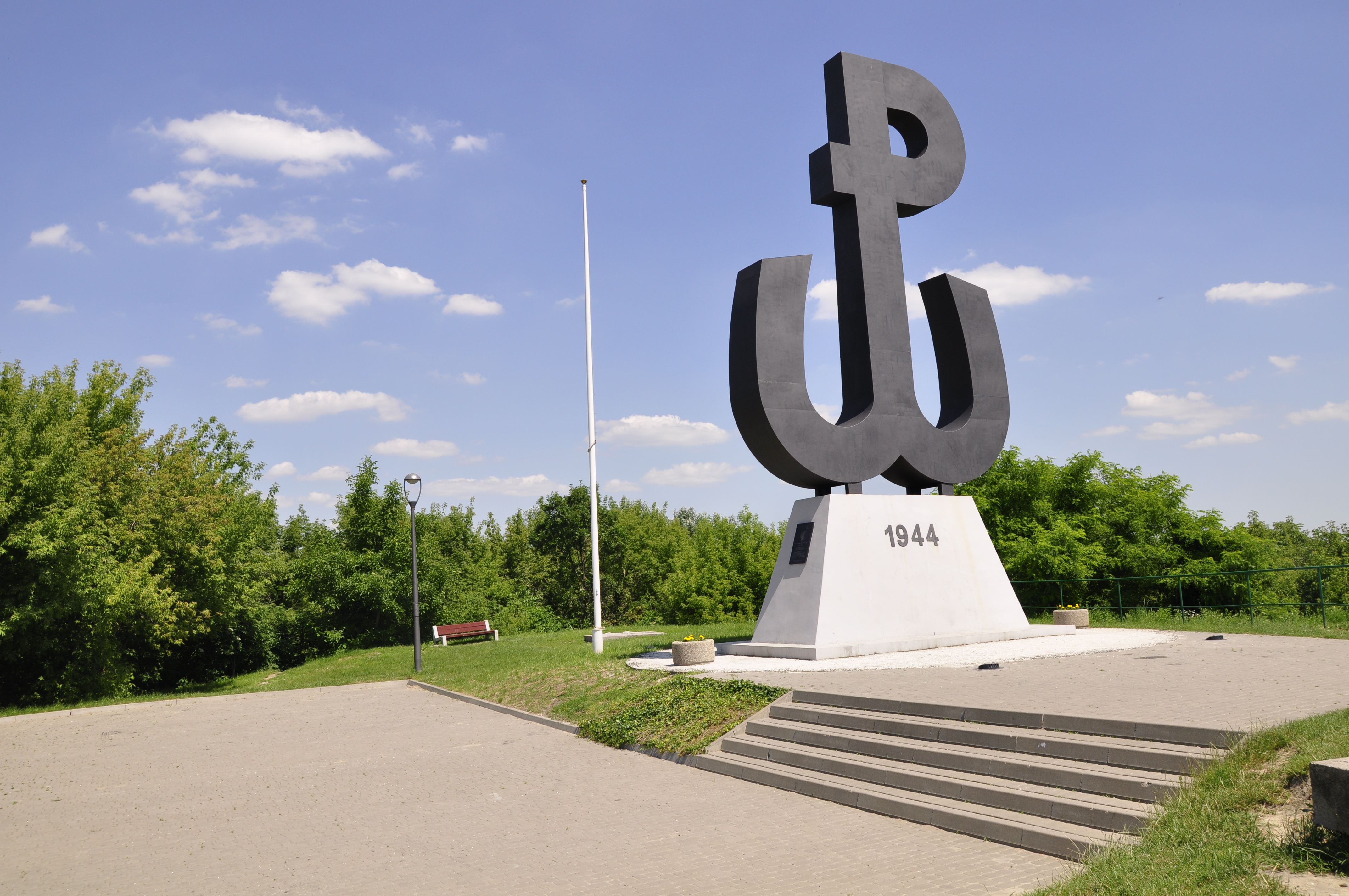 Kopiec Denkmal Warschau Mokotow